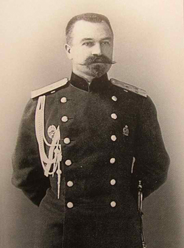 Sakharov Viktor (1848 — 1906) Military Minister of Russia (1905)